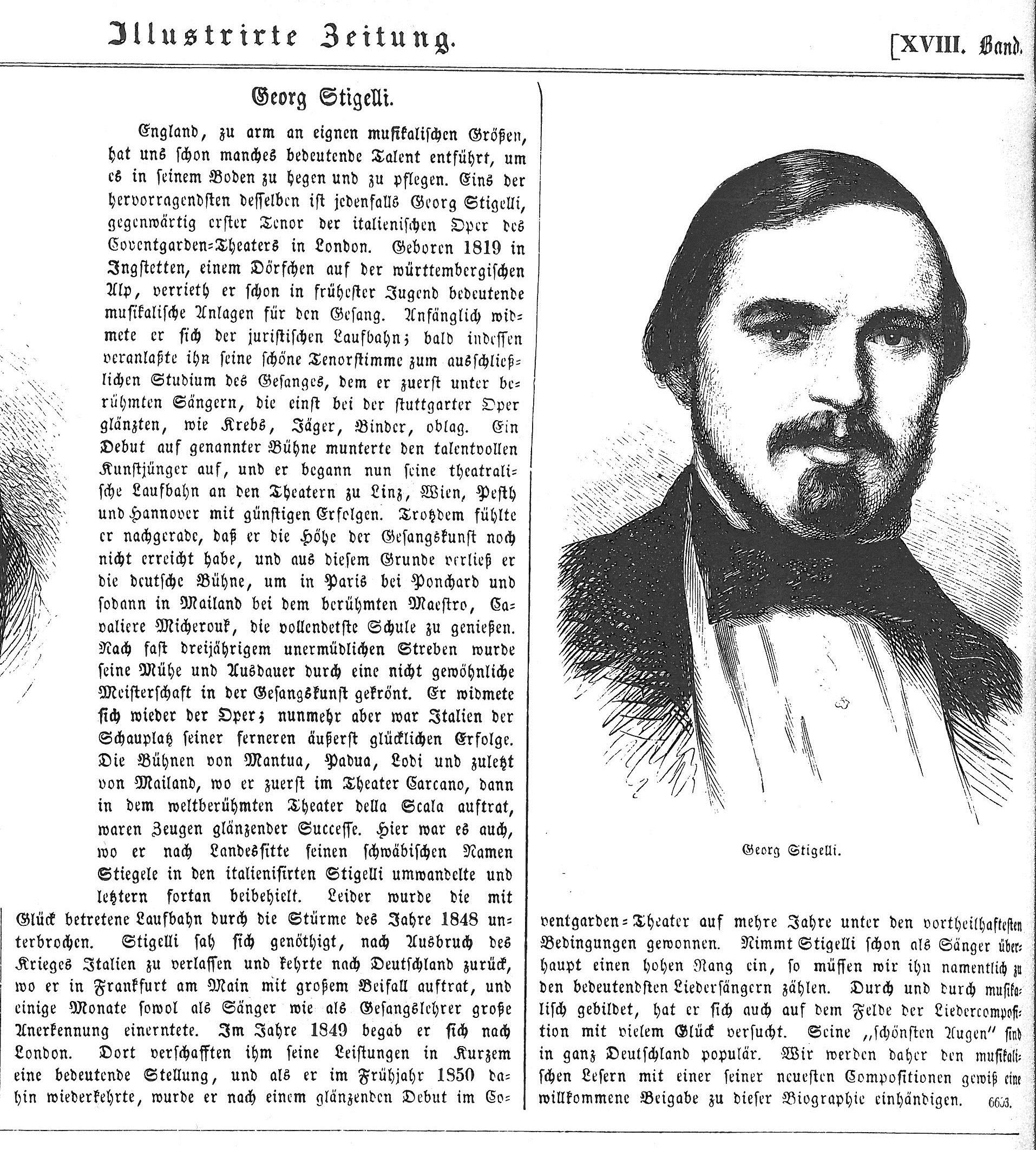 Biography of Georg (Giorgio) Stigelli (Stighelli) (1819-1868), German opera tenor und composer